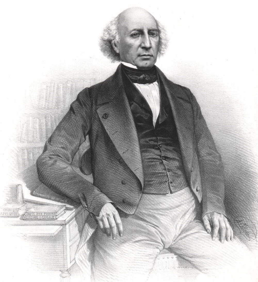 Mathieu Orfila (Mateu Josep Bonaventura Orfila i Rotger, 1787-1853), pioneer of forensic toxicology